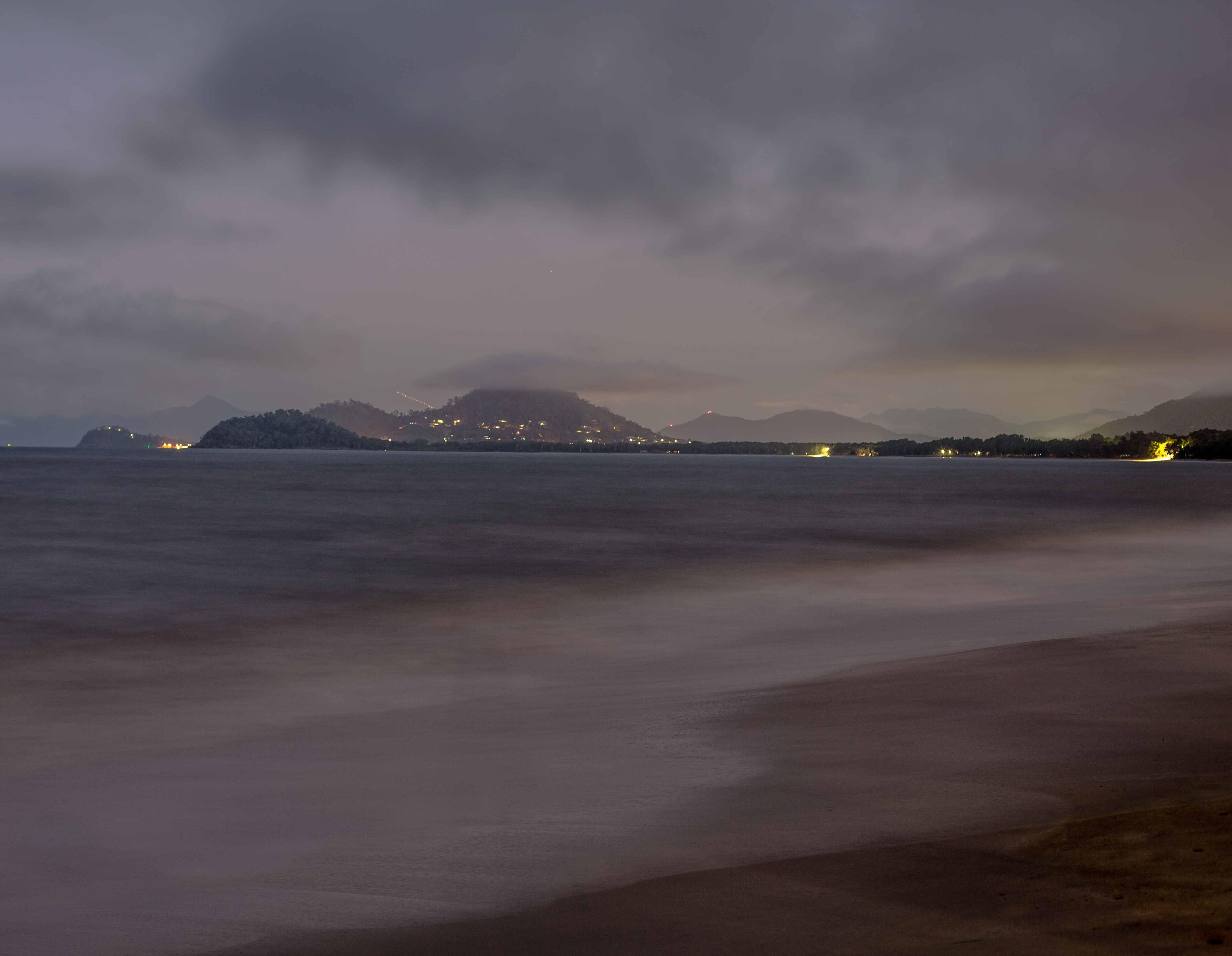 Cairns